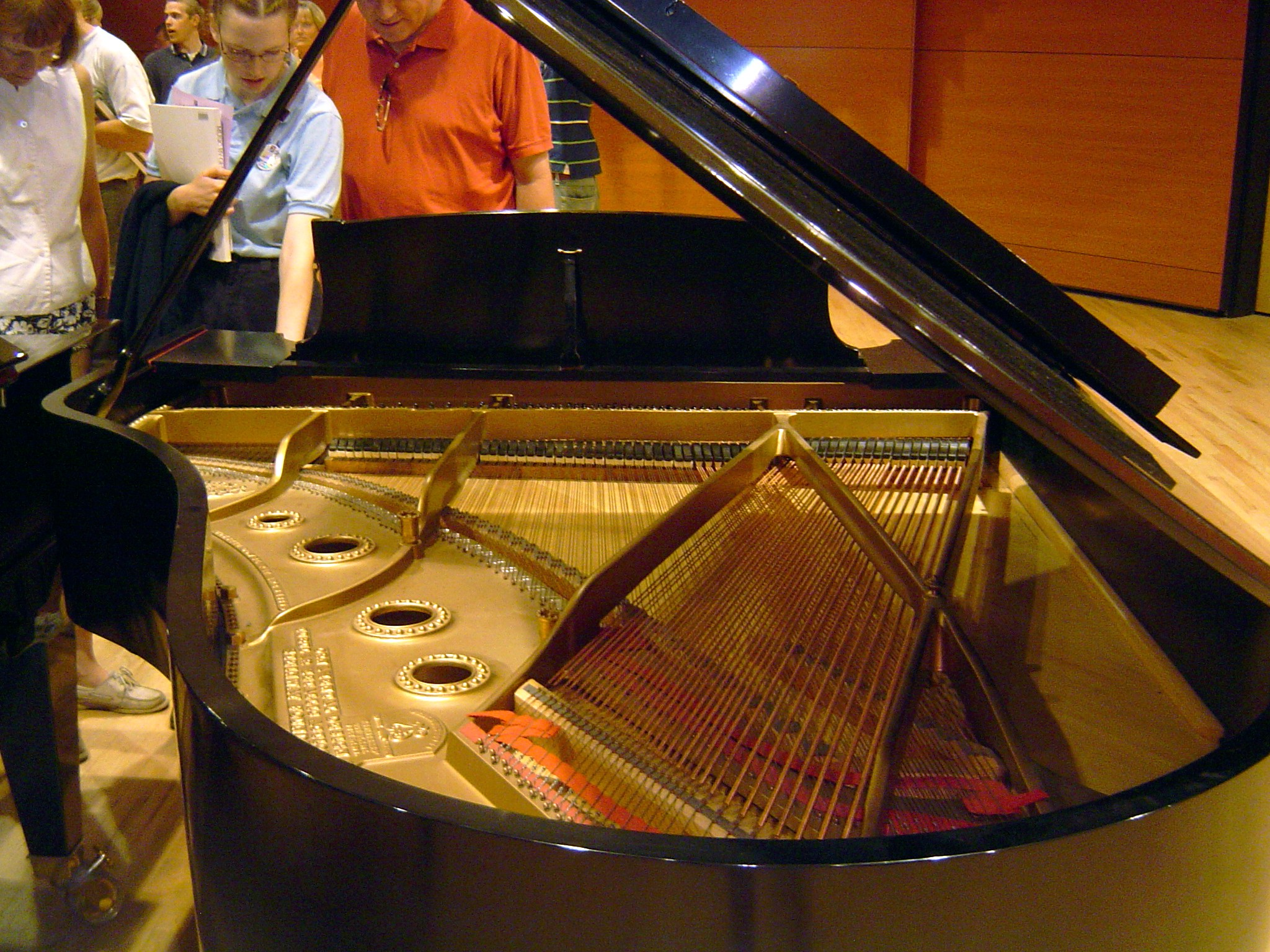 Steinway grand piano soundboard